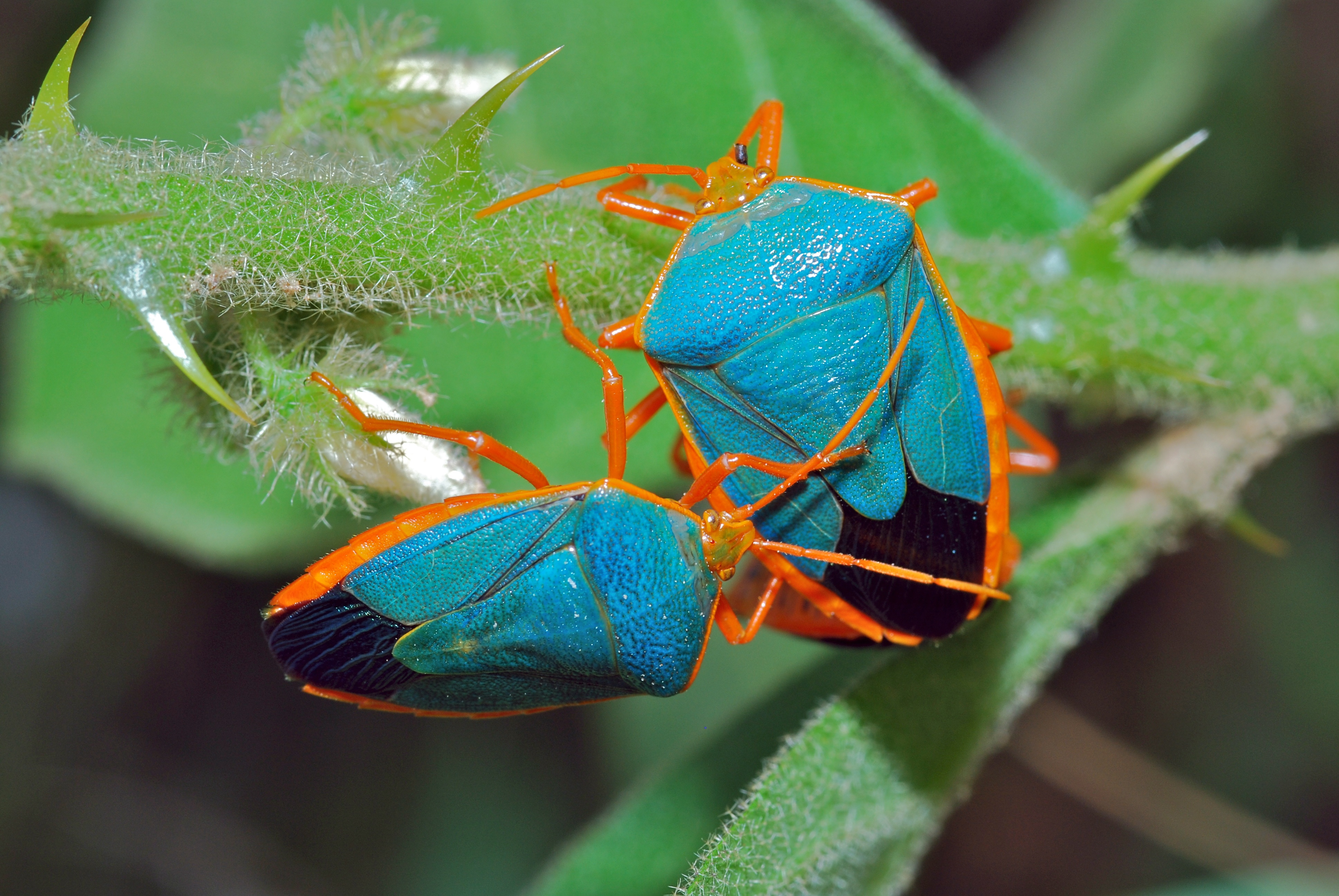 Cockscomb Wildlife Sanctuary, BELIZE